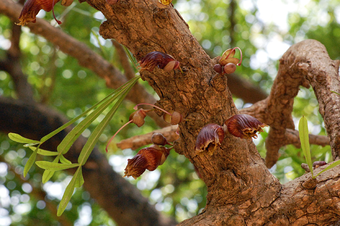 Flowers and buds of Crescentia alata from Bignoniaceae. The cauliforous flowers of this small tree are said to be bat pollinated. The trifoliate leaves of C. alata distinguish it rather easily from the more common simple leaved or sometimes unifoliate C. cujete.